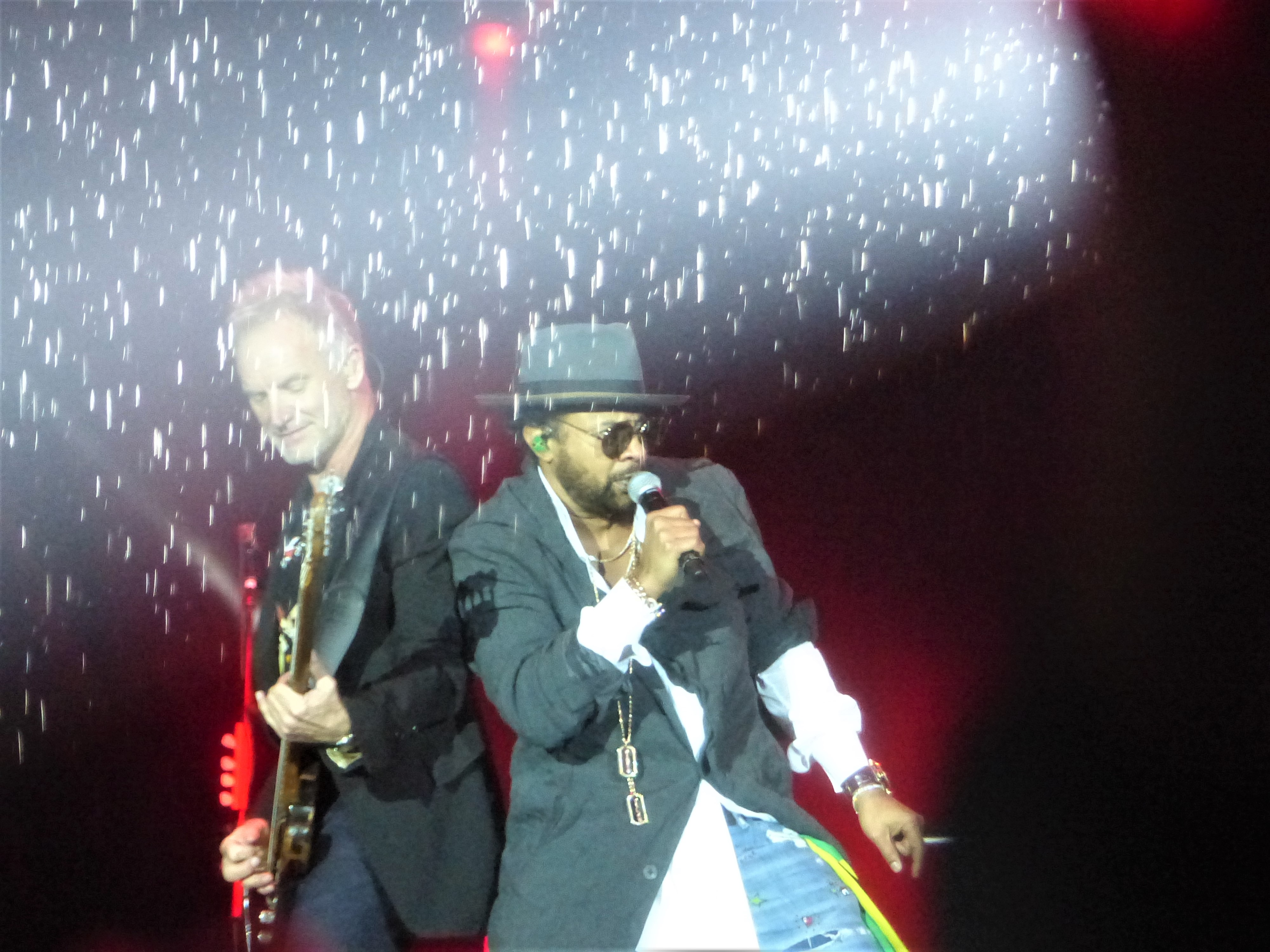 Sting and Shaggy on tour. January 2018 saw the release of "Don't Make Me Wait", the first single from a collaboration album of Sting and Shaggy. The album, titled 44/876, was released on April 20, 2018. Taken on the 24th of November, 2018. Hősök tere, Budapest, Central Europe. Sourceː